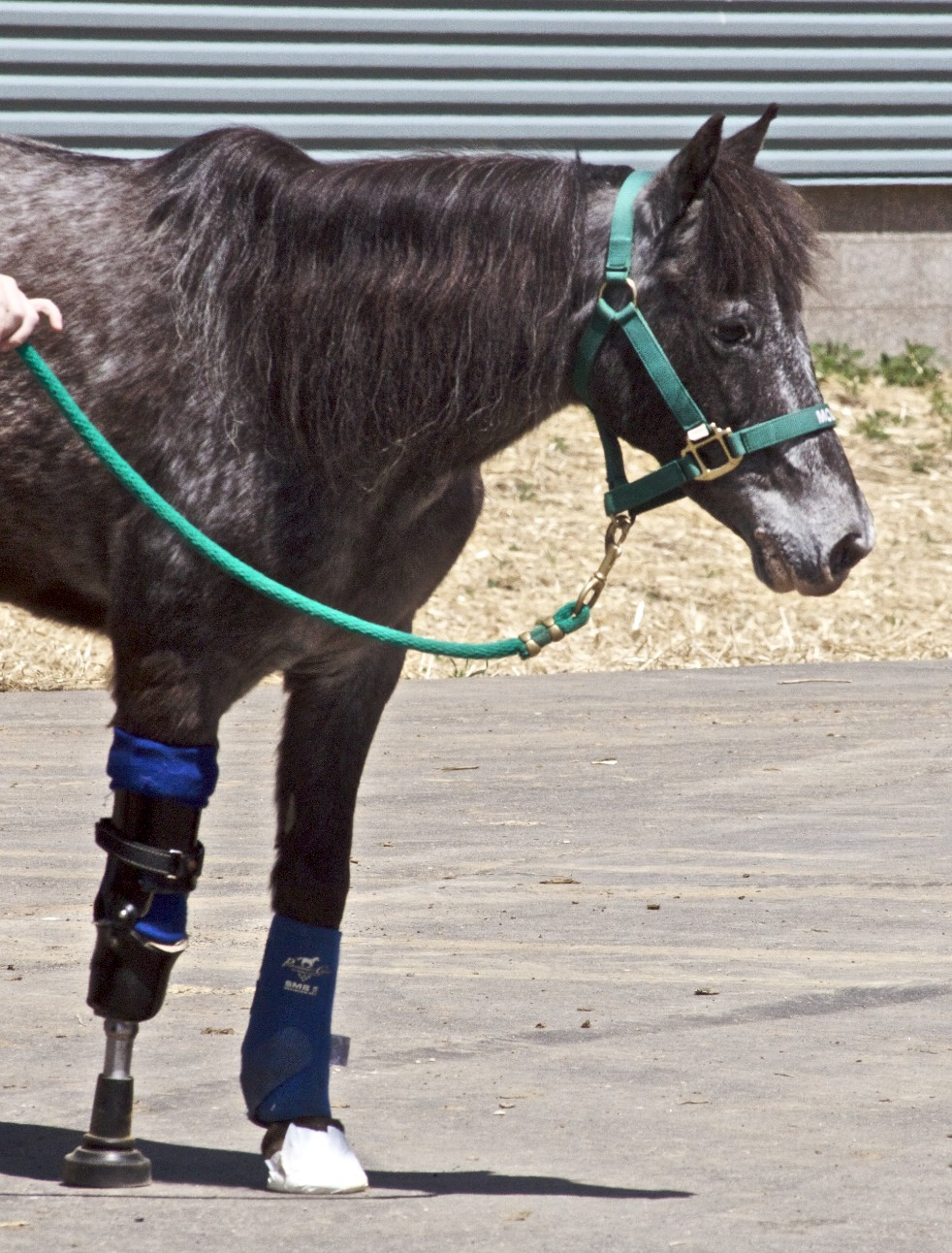 Molly, a pony with artificial leg